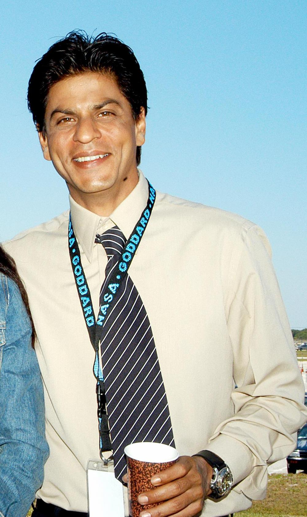 Shahrukh Khan during filming at Kennedy Space Center